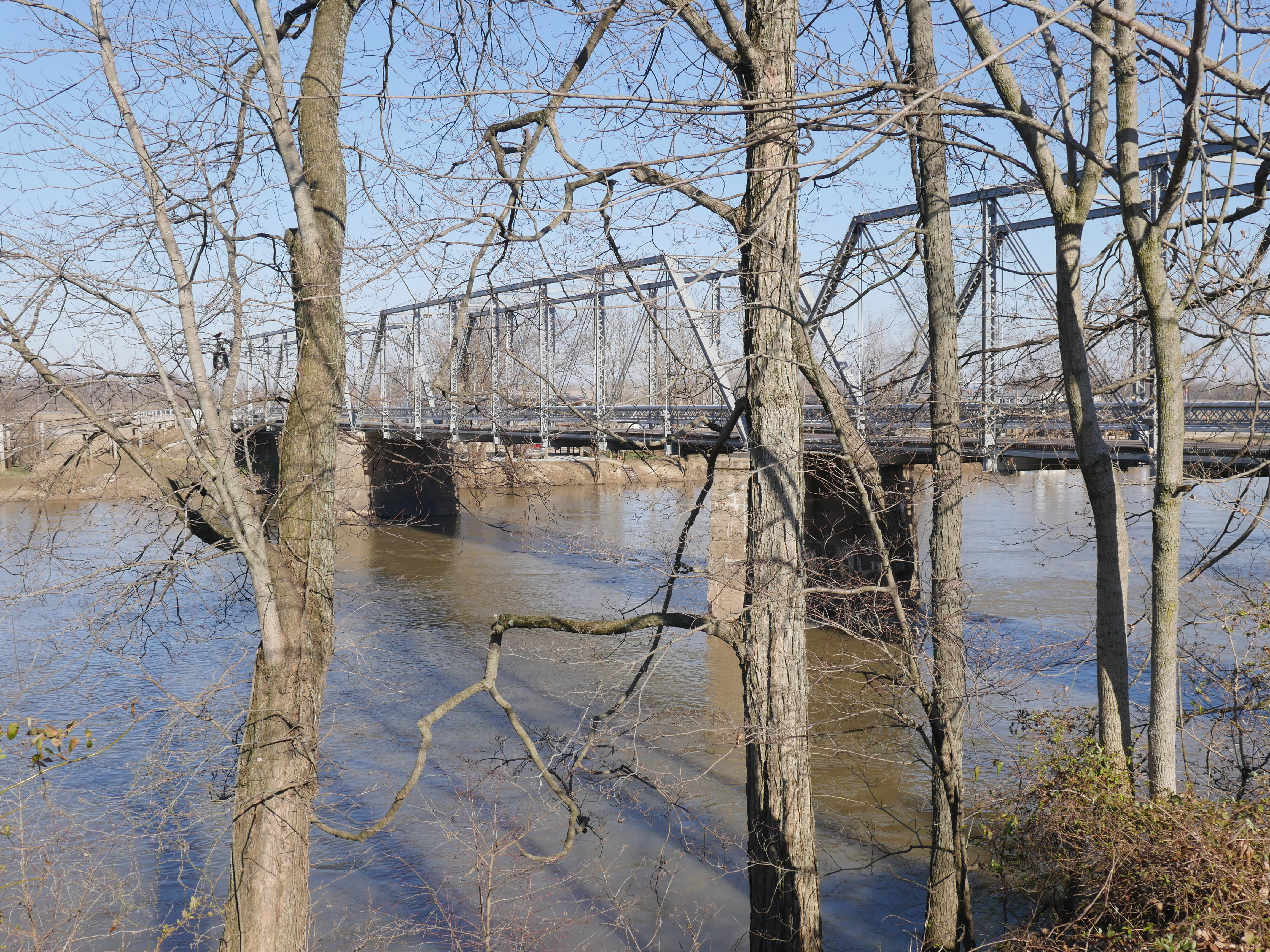 Photo taken by Silver Coulter February 2020.